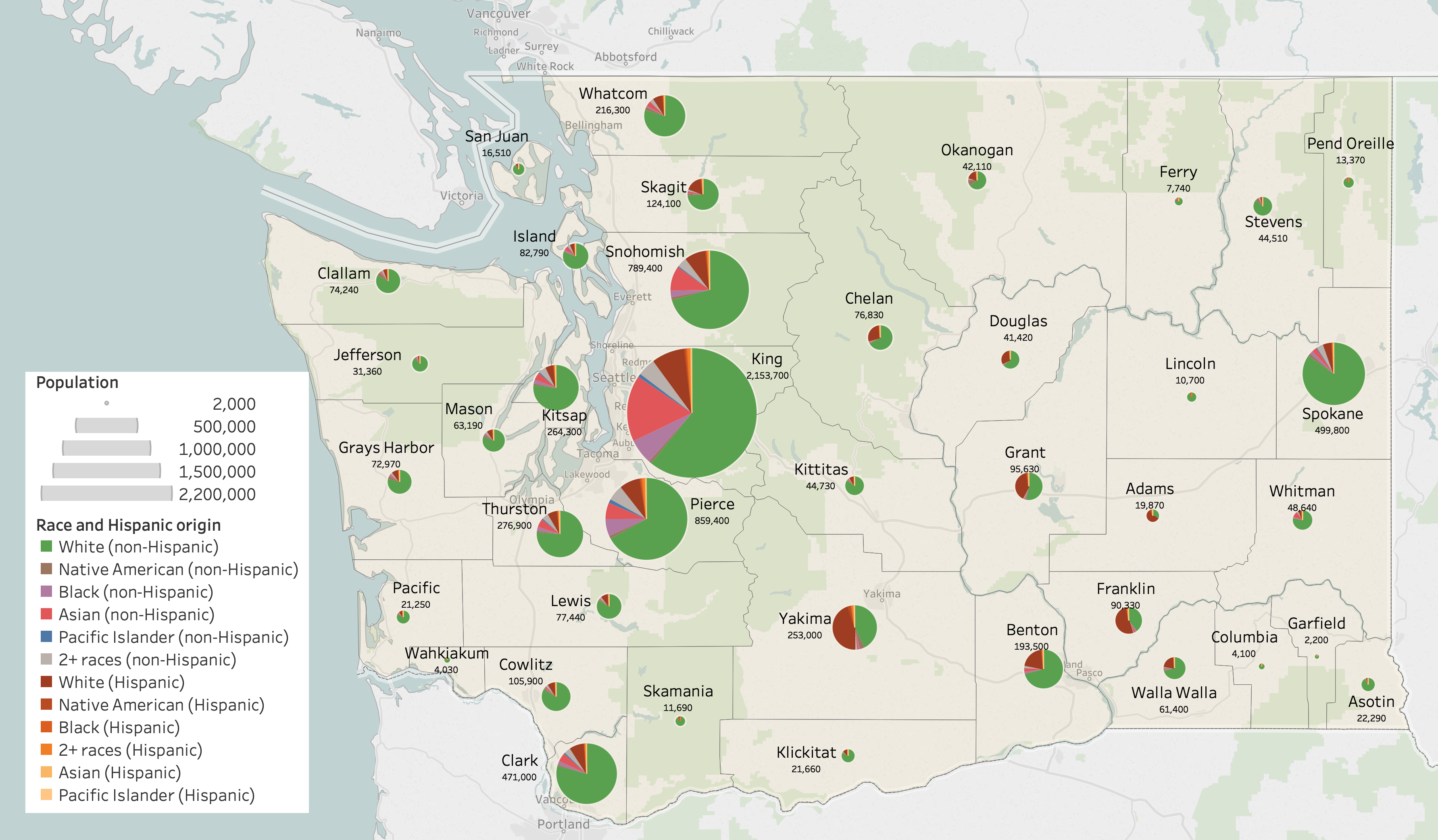 Race and Hispanic origin of Washington State, US, by county. Source: Estimates of April 1 population by age, sex, race and Hispanic origin, County: 2010-2017[1] (Microsoft Excel), Washington State Office of Financial Management, 2017